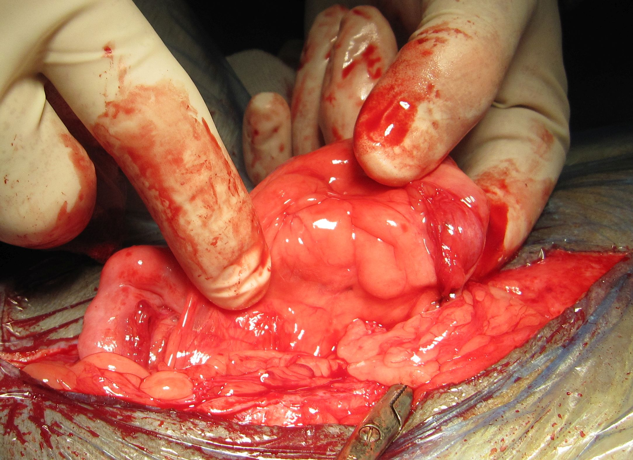 Ovarian-remnant-syndrome